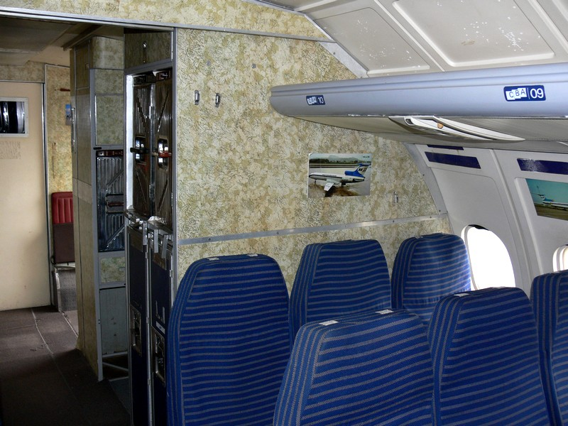 Tupolev Tu-154 B2 cabin (detail) Malév Hungarian Airlines HA-LCG (The airplane was taken out of circulation in 1992) Location: Ferihegy Outdoor Museum, (Budapest)